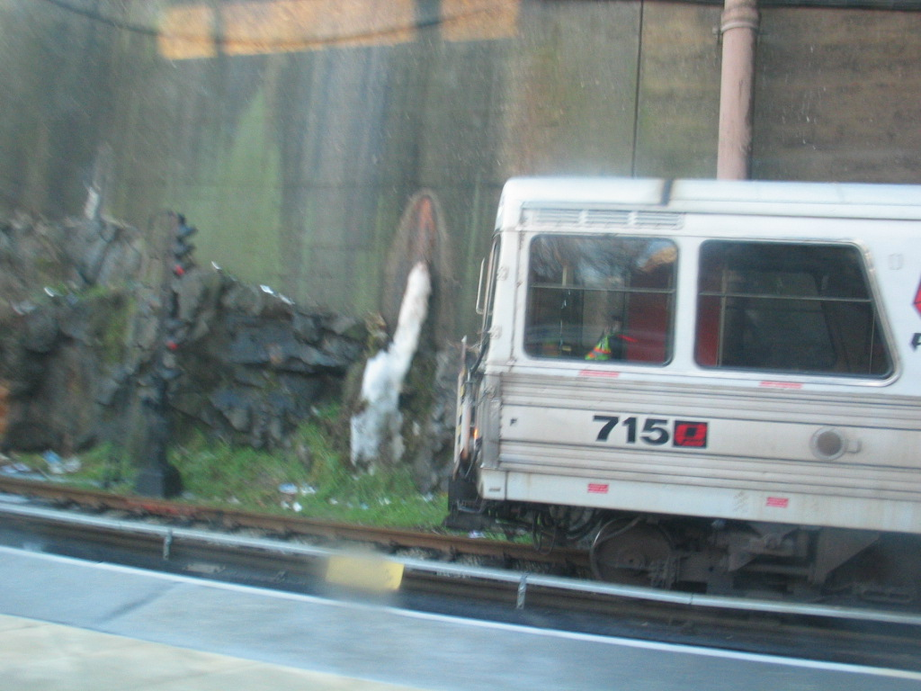 Car number 715, by the head/tail of the train